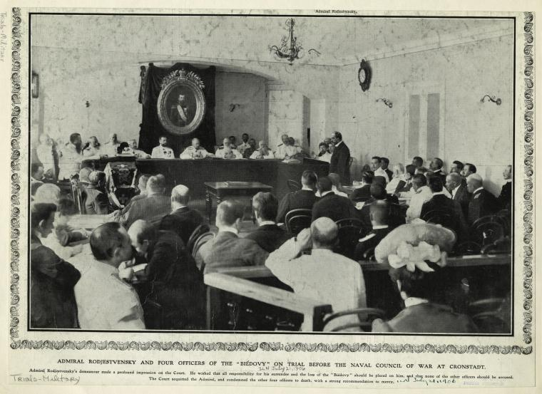 Admiral Rodjestvensky and four officers of the "Biedovy" on trial before the naval council of war at Cronstadt. Content: Admiral Rodjestvensky's demeanour made a profound impression on the court. He wished that all the responsibility for his surrender and the loss of the 'Biedovny' should be placed on him, and that none of the other officers should be accused. The court acquitted the Admiral, and condemned the other four officers to death, with a strong recommendation to mercy." Written on border: "July 21, 1906"